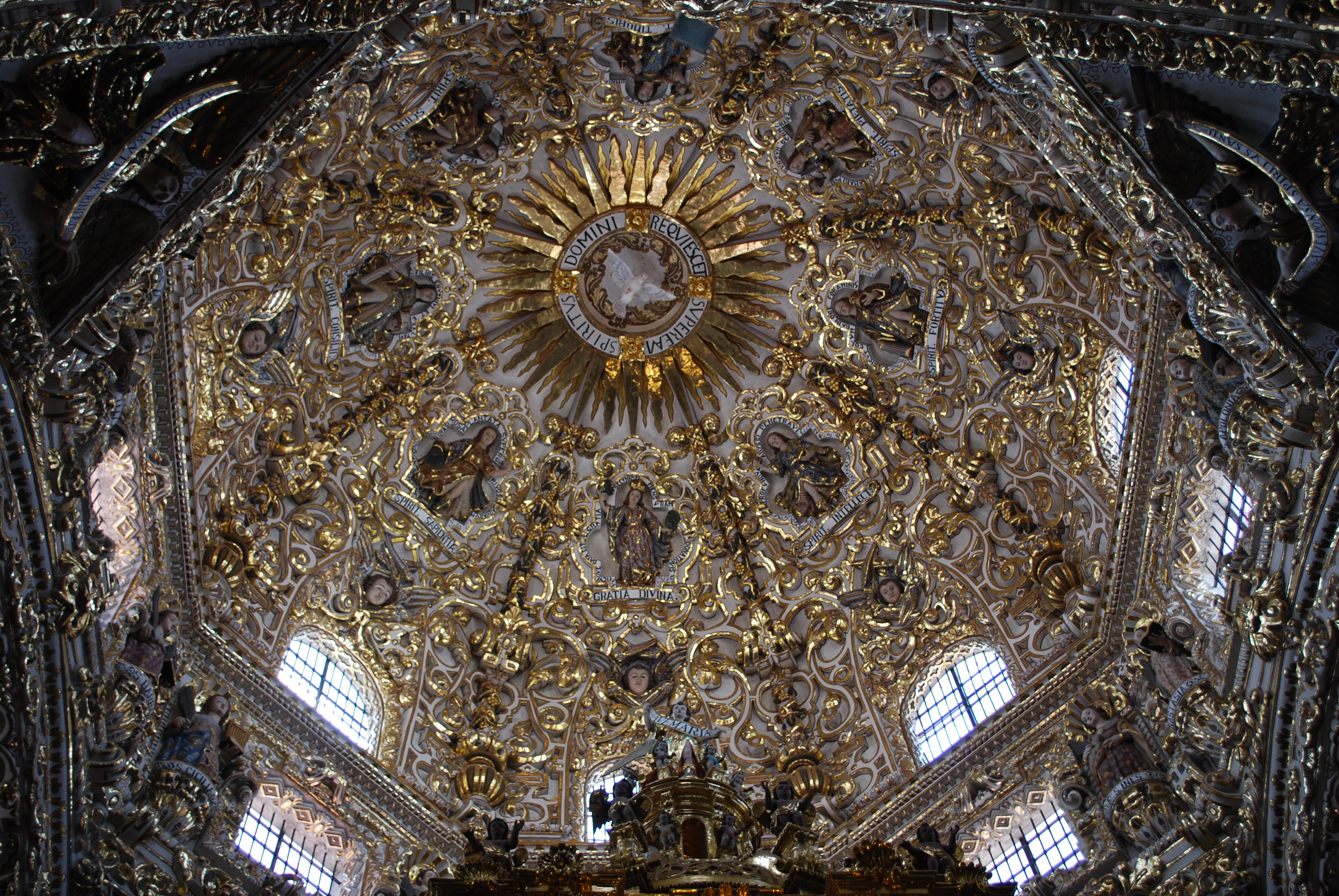 View of the cupola of the Capilla del Rosario in Puebla, Mexico